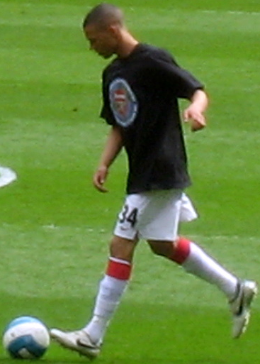 Kieran Gibbs. Image cropped from original at flickr.